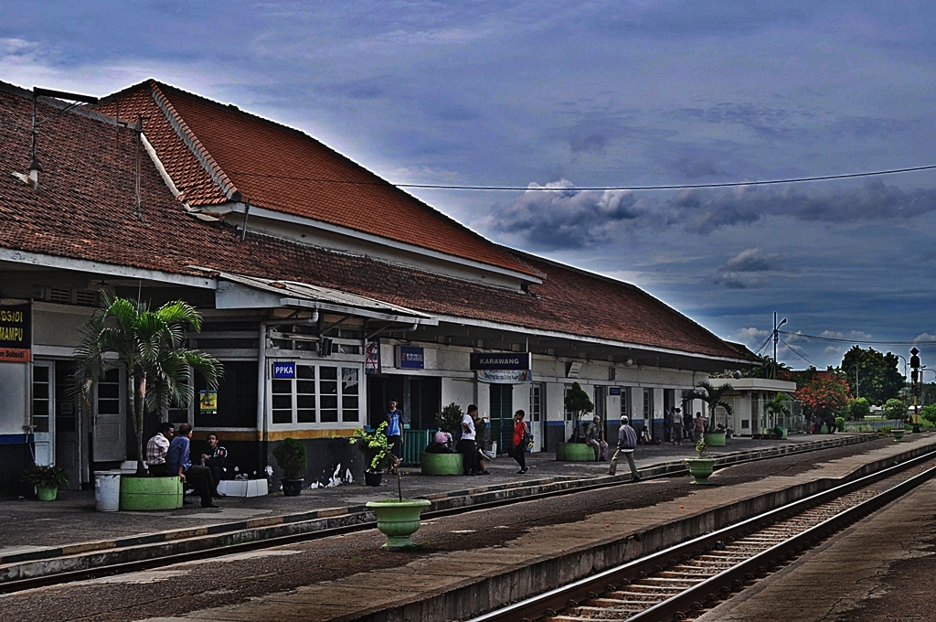 Karawang Train Station, West Java, Indonesia (platform).